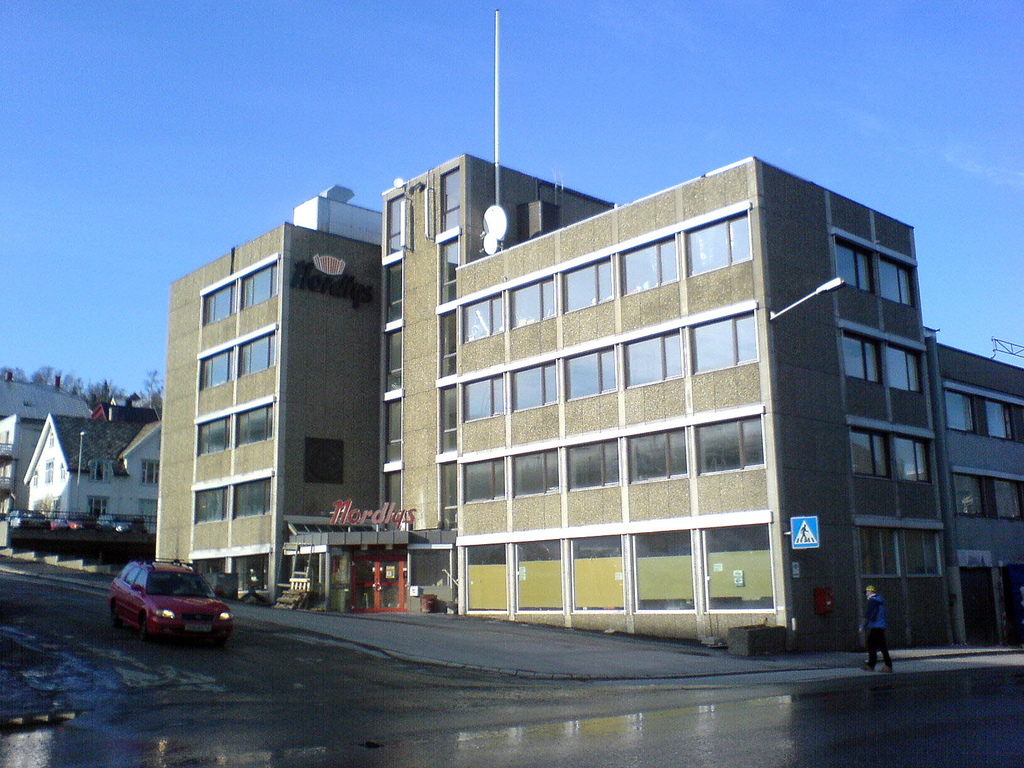 Newsdesk and office building for Northern Norway's largest newspaper, Nordlys